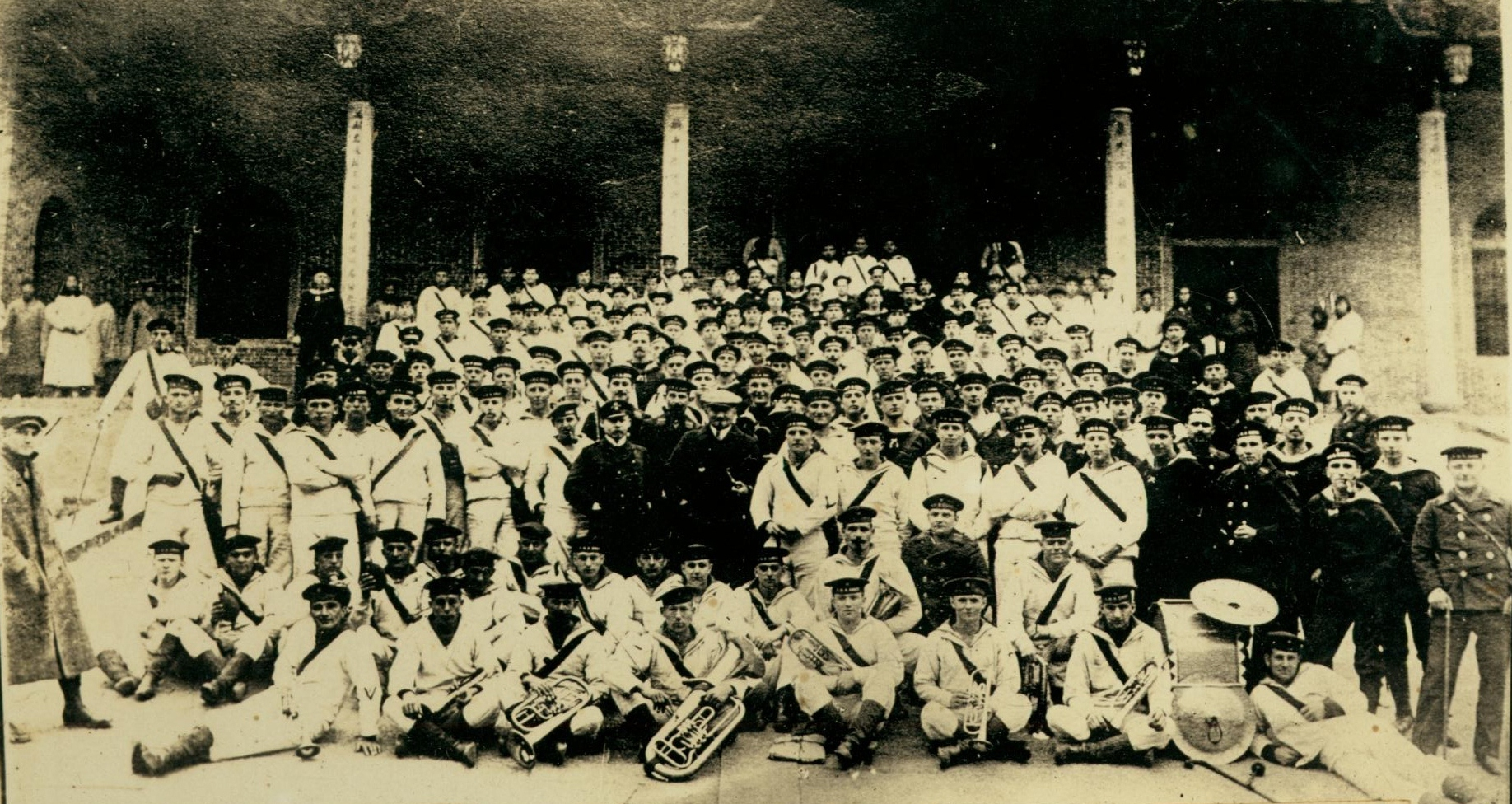 The crew of the German commerce raider SMS Emden taken shortly before the outbreak of the First World War where many of the crew would be captured or killed after an engagement with the Royal Australian Navy.